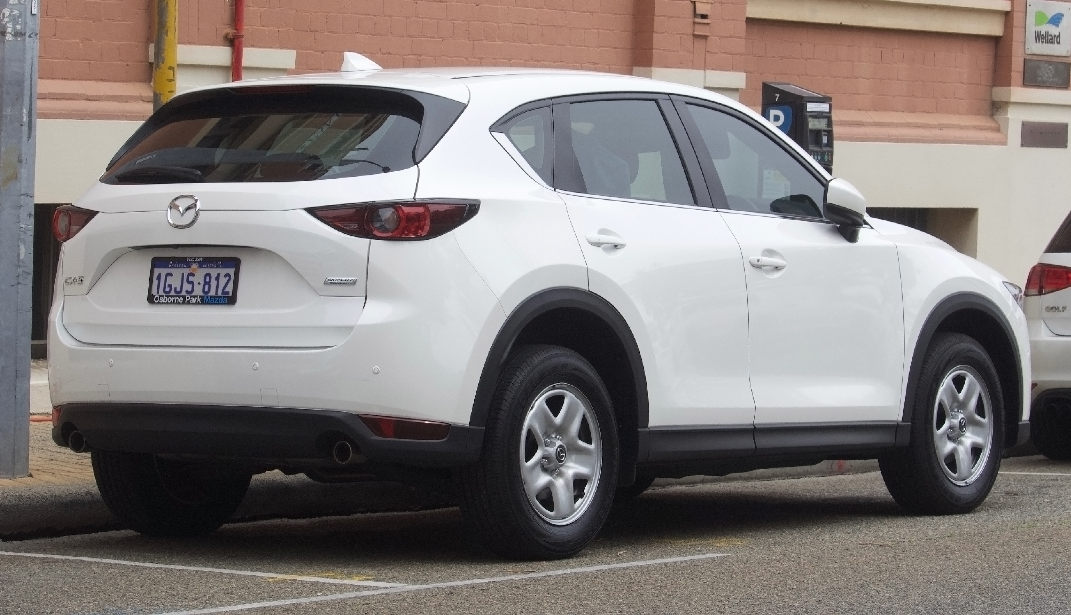 2017 Mazda CX-5 (KF) Maxx 2WD wagon. Photographed in Fremantle, Western Australia, Australia.